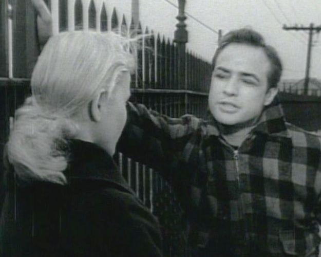 Marlon Brando and Eva Marie Saint in a screenshot from the trailer for the film On the Waterfront.